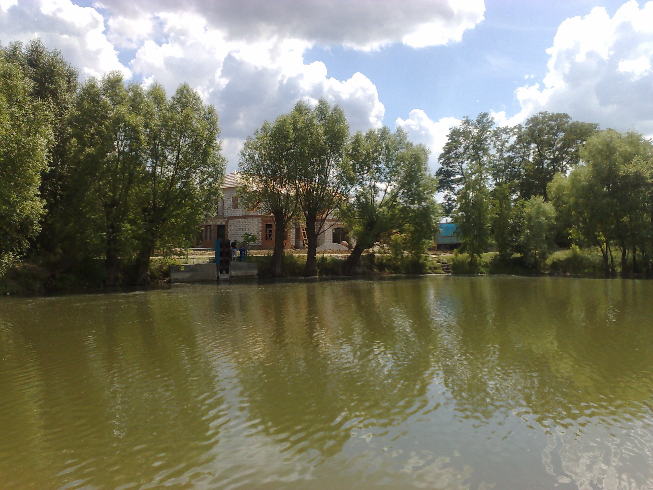 little lake Ryabenkove in village Krushinka, Kiev region, Ukraine